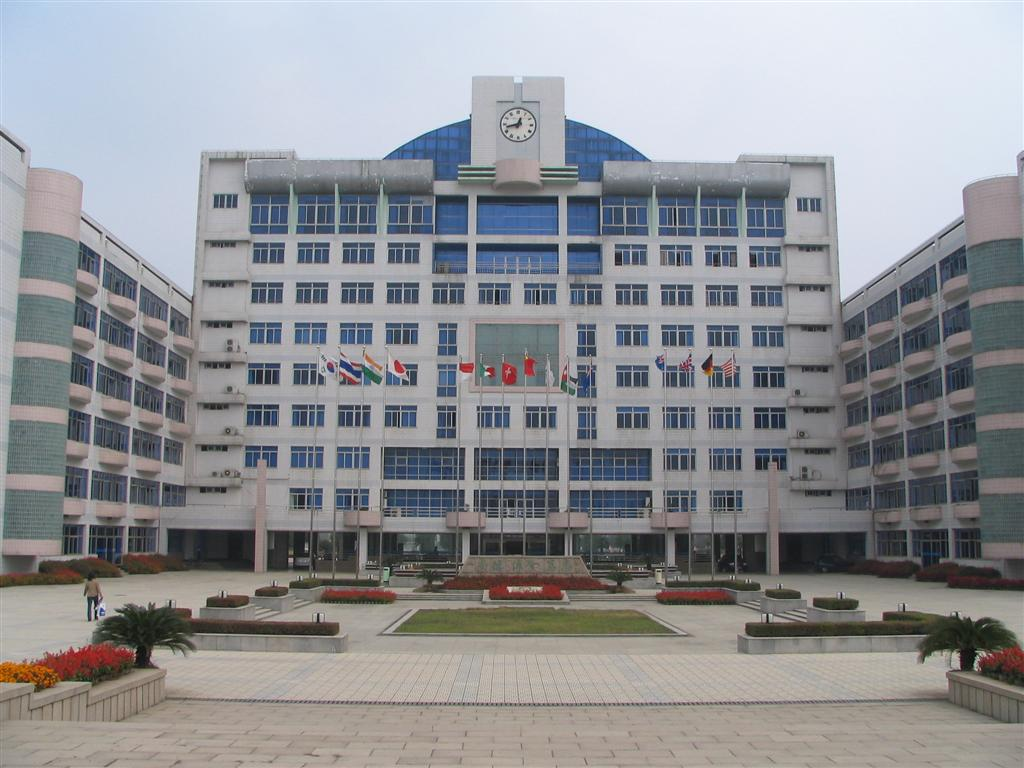 Description Changzhou International School, Changzhou, Jiangsu, People's Republic of China Author : AL Source : Self taken photograph